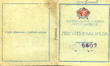 Football club document